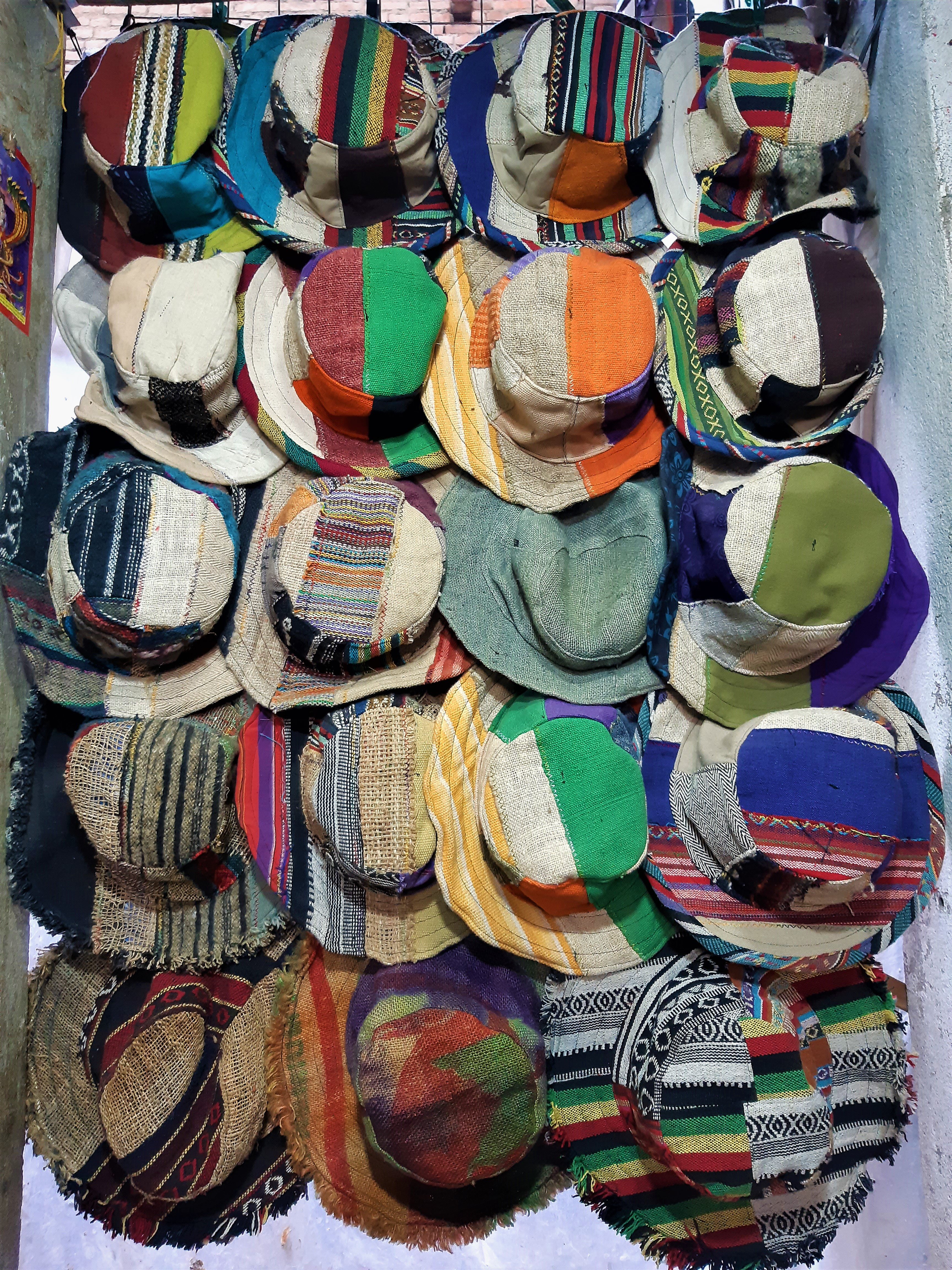 Varieties of Hemp Hats manufactured in Nepal.